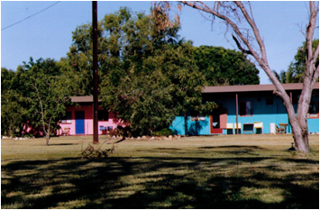 Holiday accomodation at Lombadina